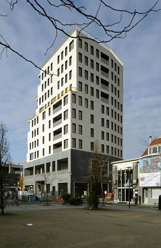 Sint-Janstower in Kortrijk.